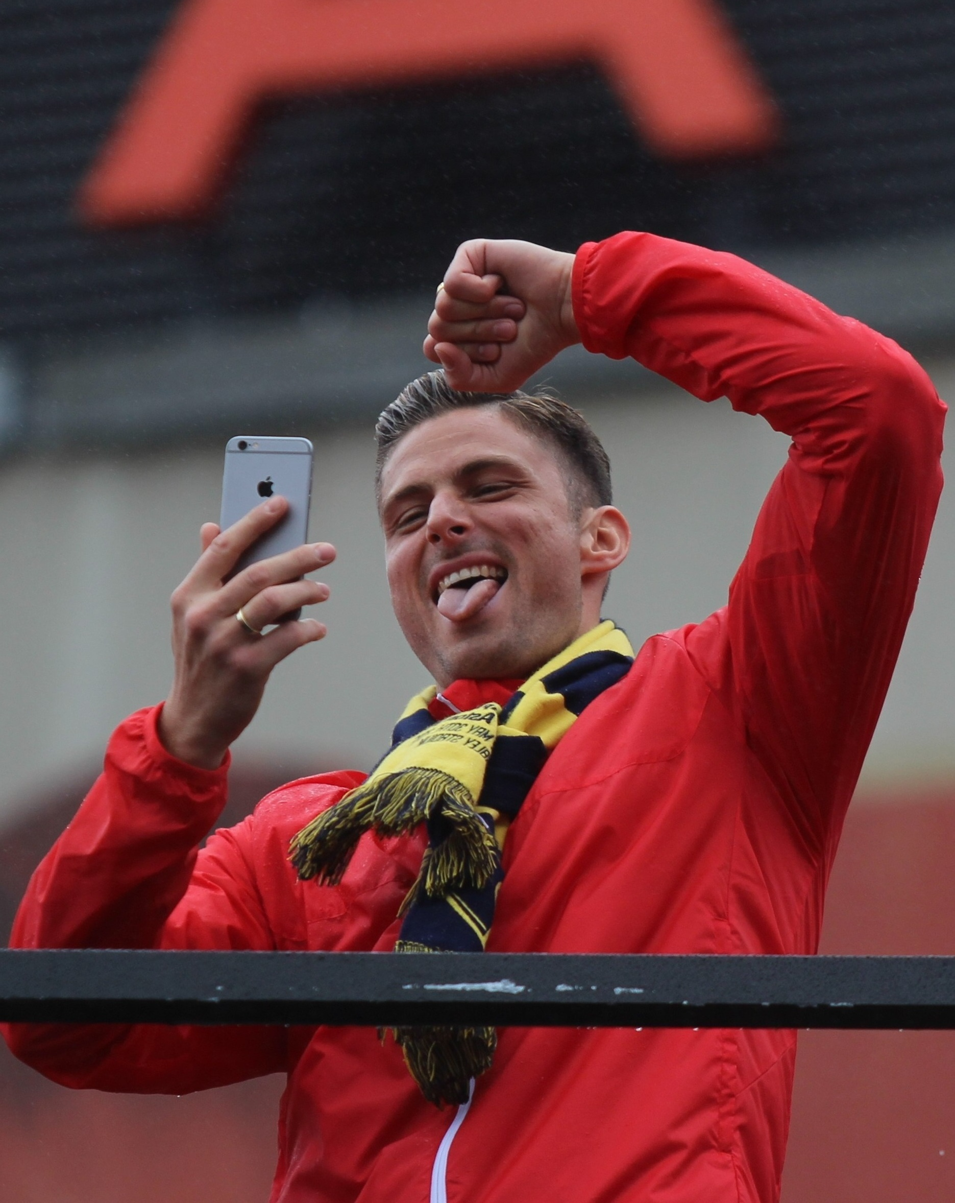 Olivier Giroud in 2015